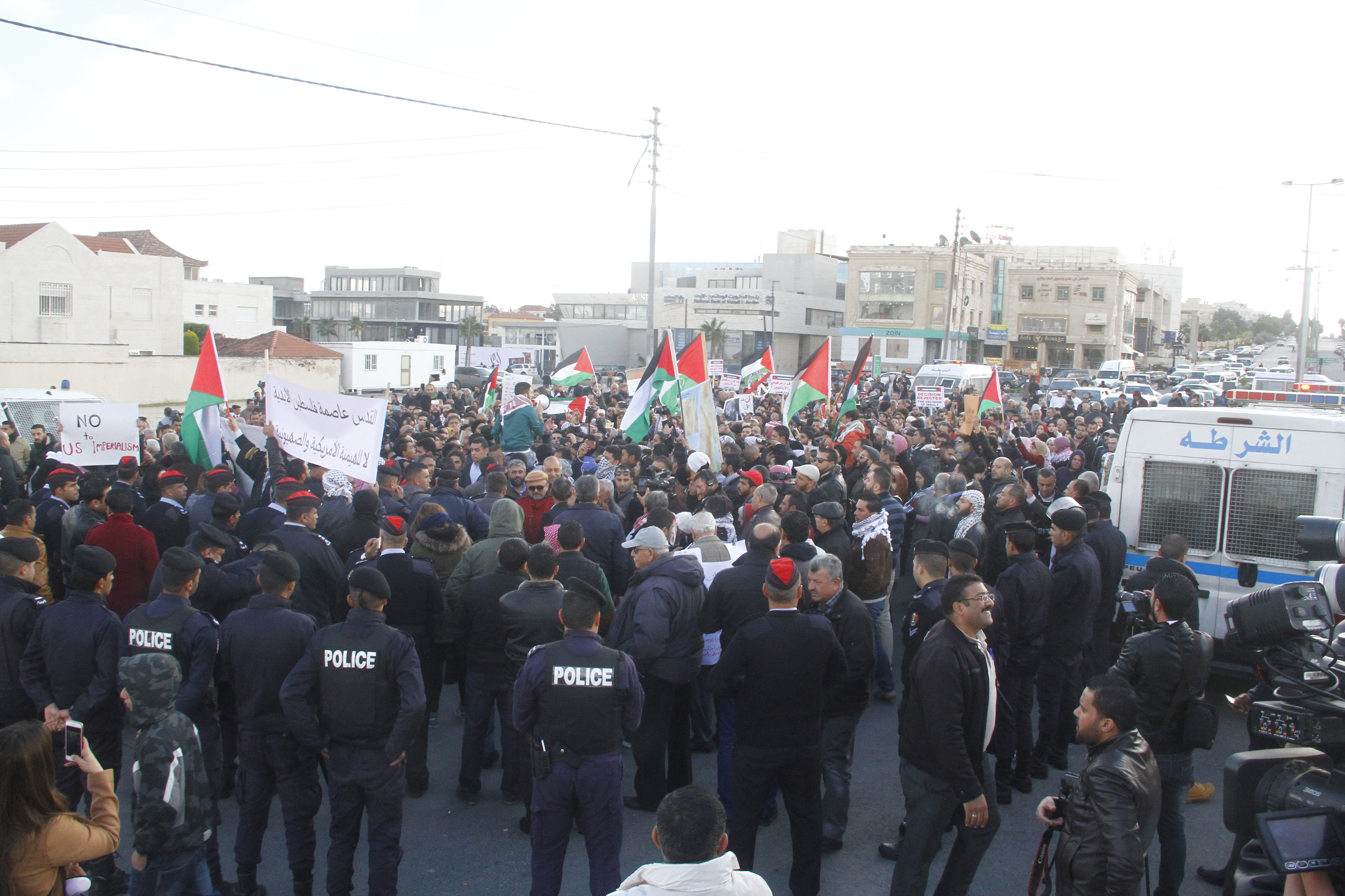 Jordanians refusing the move of USA embassy to Jerusalem